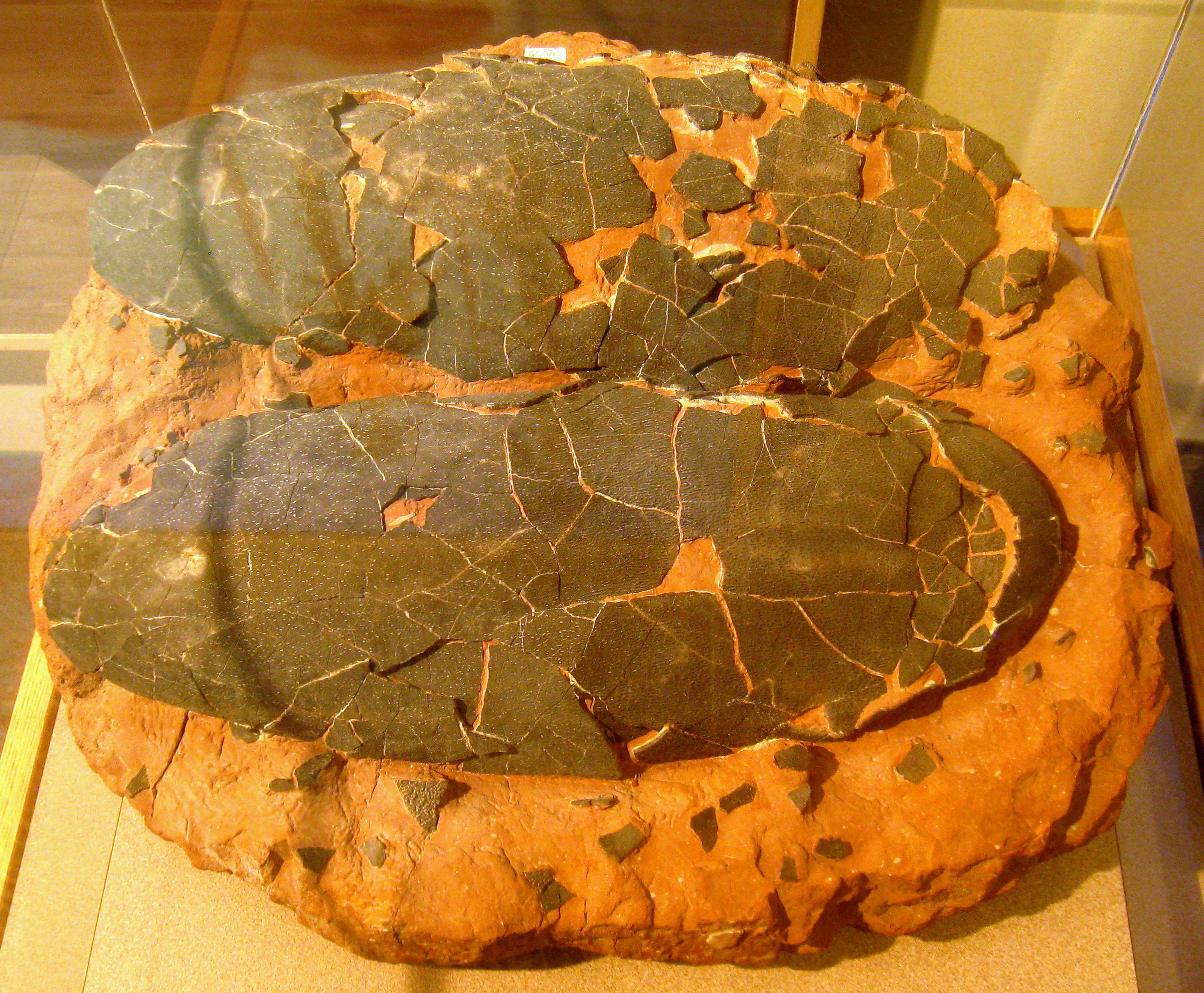 Macroolithus fossil dinosaur eggs, from China. Exhibit in the Academy of Natural Sciences, 1900 Benjamin Franklin Parkway, Philadelphia, Pennsylvania, USA. Photography was permitted in this area of the museum without restrictions.